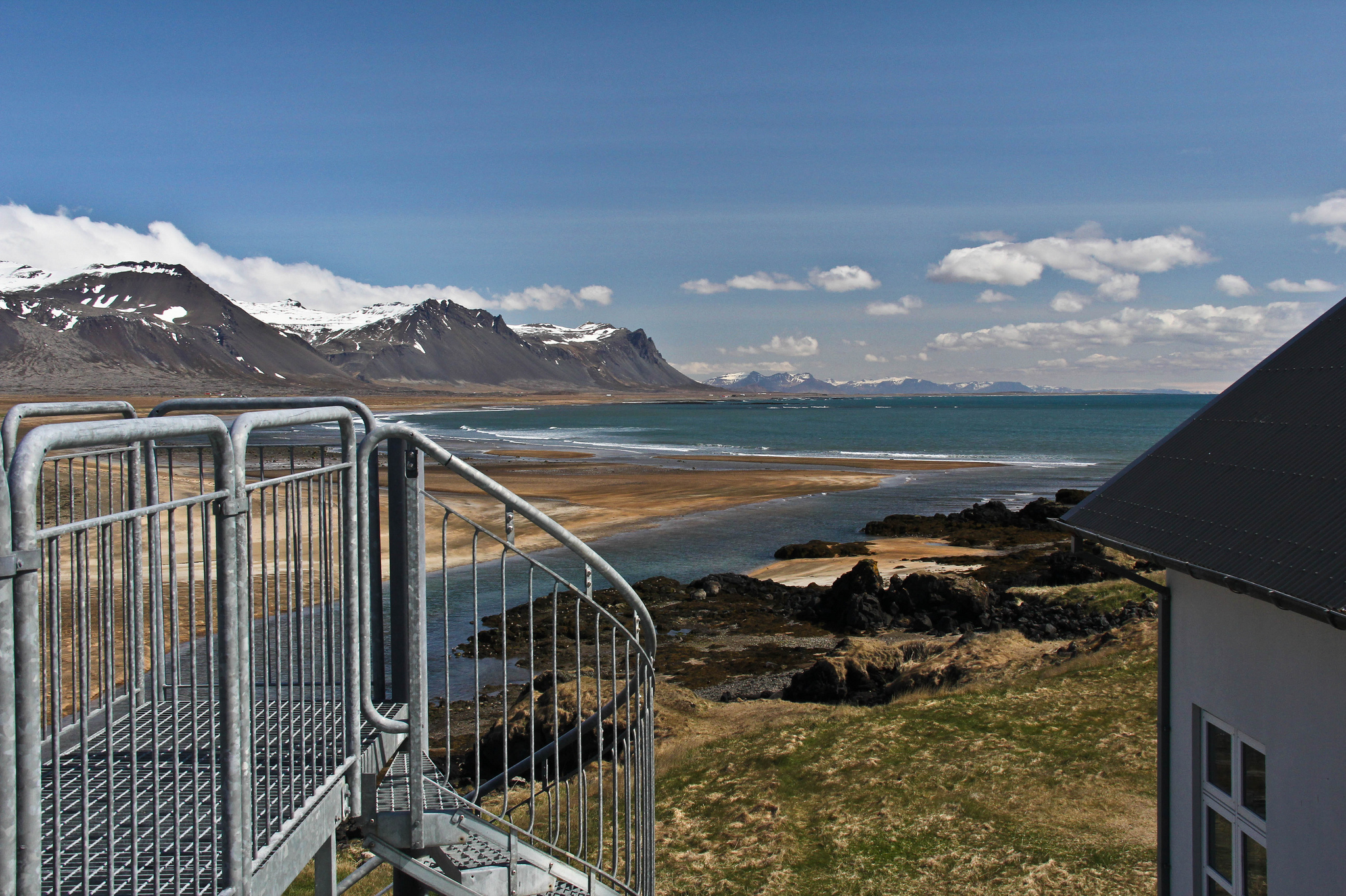 Budavik seen from the Budir hotel